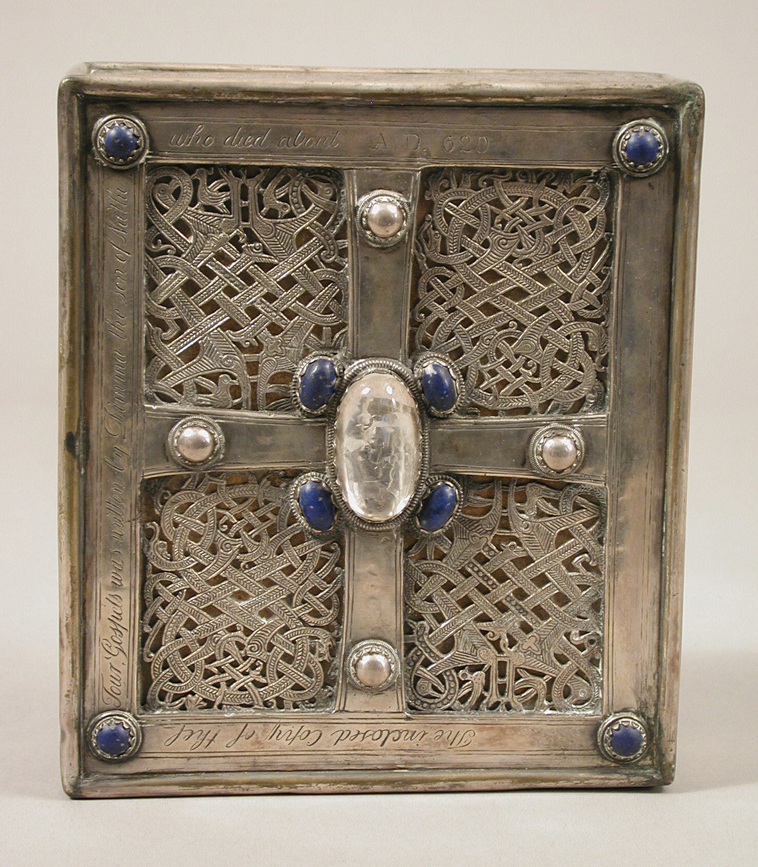 Irish; Shrine; Reproductions-Metalwork